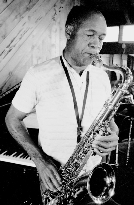 Buddy Collette 1985. Photo: Brian McMillen /